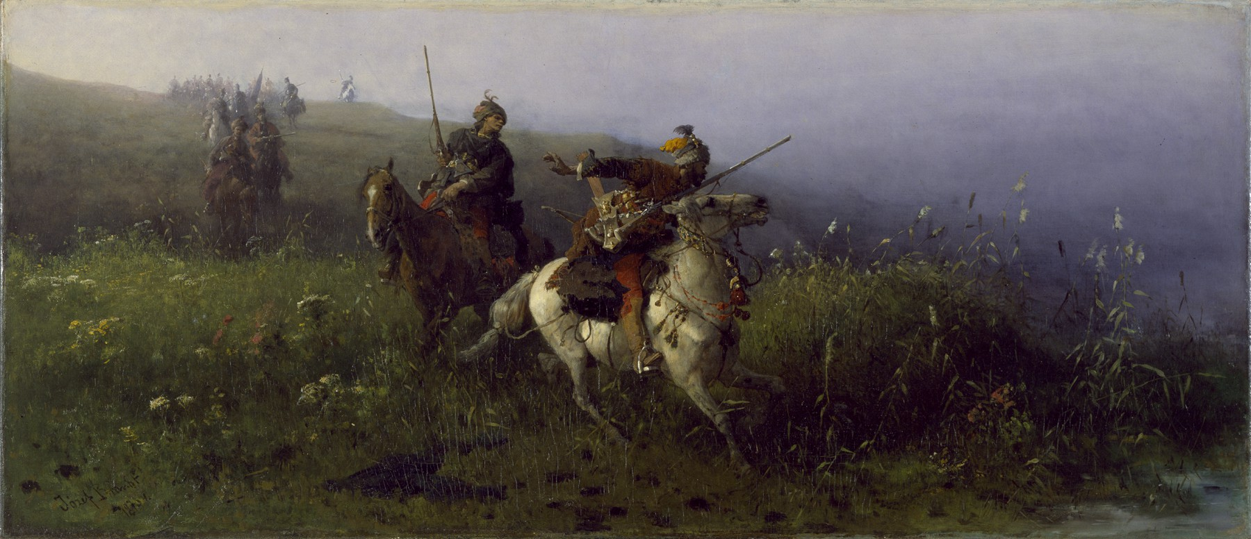 Brandt, a painter of military campaigns and eastern European trail scenes in which horses serve as a recurring motif, distinguished himself as the leader of the "Munich school of Polish painters," an informal band of realists of Polish origin active in Munich in the 1870s. In search of exotic subjects he frequently traveled eastward, visiting Ukraine and the European parts of Turkey. A consummate painter of horses, Brandt shows a procession of Tartar horseman proceeding across a grassy plain dotted with colorful wildflowers. The figure on a dapple horse in the central foreground, startled by something in the rushes at the right, halts, brandishes his rifle, and raises his hand to caution his companion. In the background, the rest of the group rides across the hill toward the two figures in the foreground. The horsemen wear bright red pants, boots, and turbans with feathers; the turban of the man on the dapple horse is a particularly brilliant saffron. Along with the rifles they carry, each has additional weapons around their waists, including bows and axes. The reins and saddles of the horses are embellished by beads and decorative metalwork.